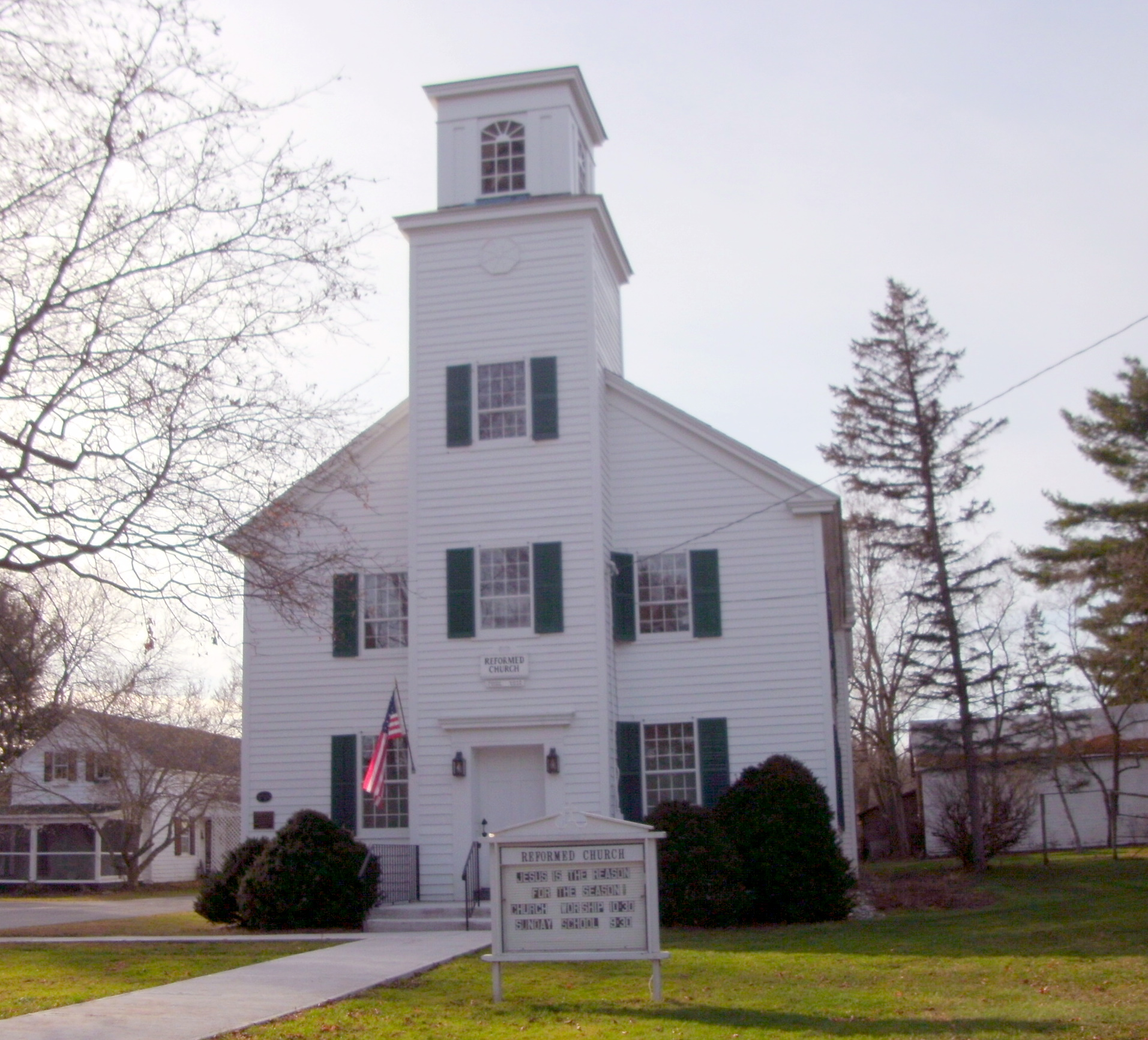 GE DIGITAL CAMERA Fort Miller, New York